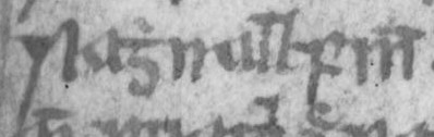 An excerpt from folio 1v of National Library of Scotland Advocates' MS 72.1.1 showing the name of Raghnall Fionn mac Ruaidhrí Mhic Ruaidhrí within a pedigree of Clann Ruaidhrí. The photograph is black and white and taken under under ultra-violet light.